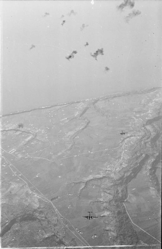 Royal Air Force- Italy, the Balkans and South-east Europe, 1942-1945. Anti-aircraft gun bursts fill the sky above Two Martin Baltimores of No. 232 Wing RAF of the Tactical Bomber Force, as they head inland to bomb enemy gun positions near Lanciano in the Sangro River battle area.